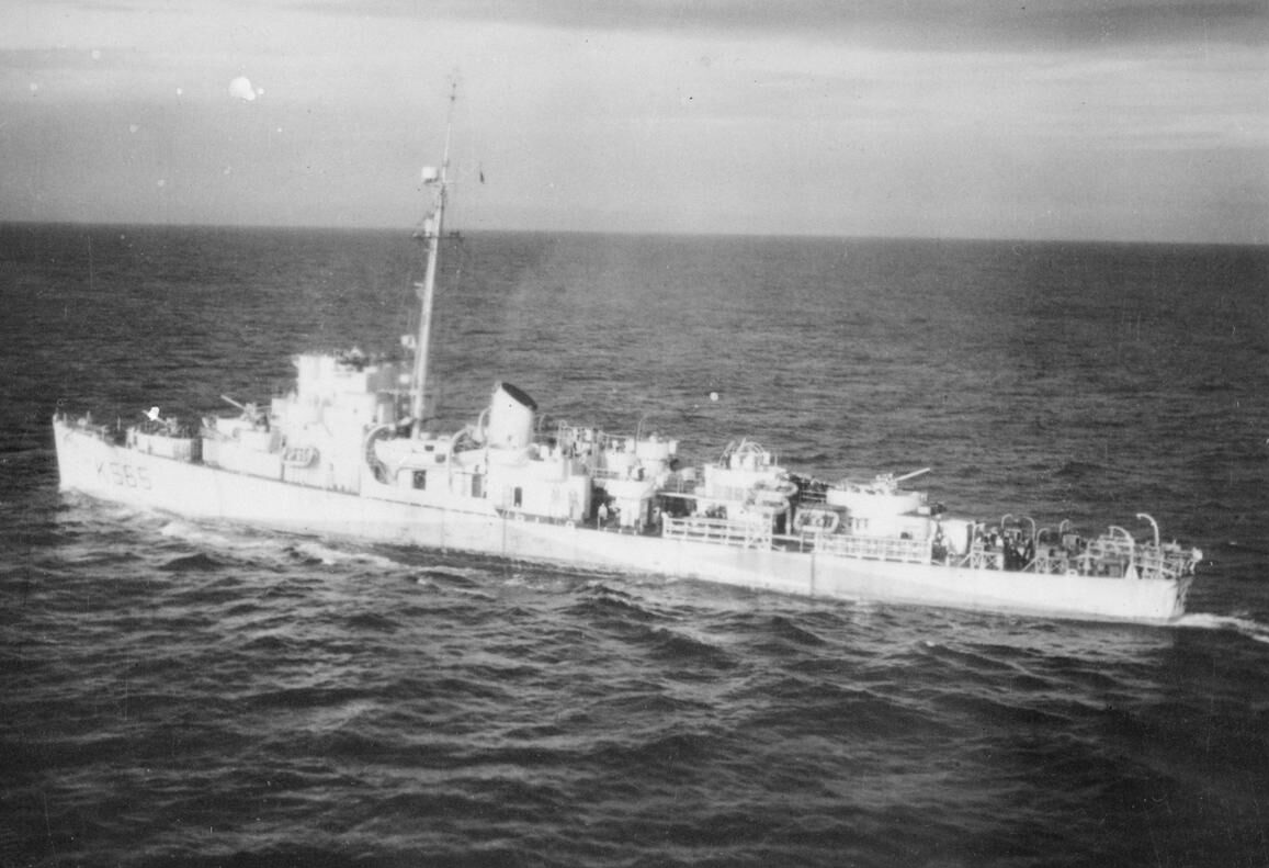 Photograph of Captain class frigate HMS Loring.